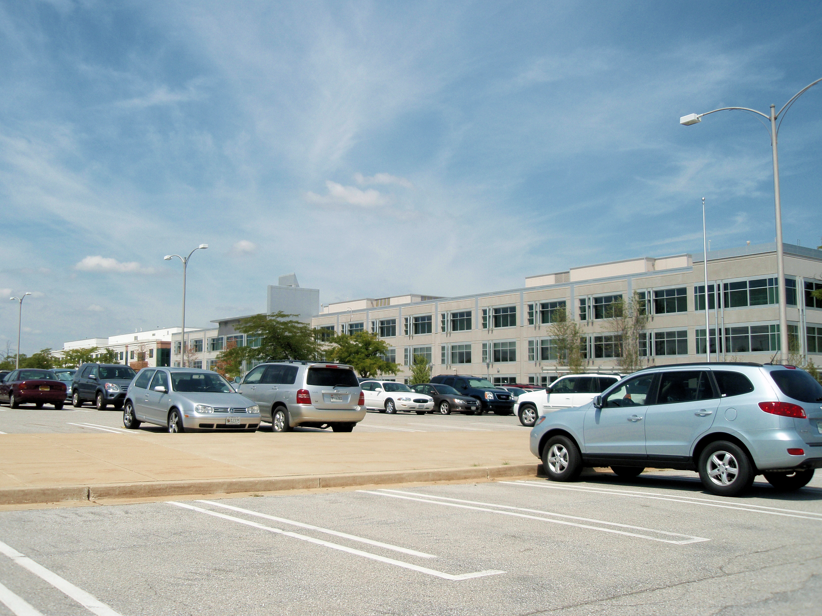 The headquarters of the Social Security Administration